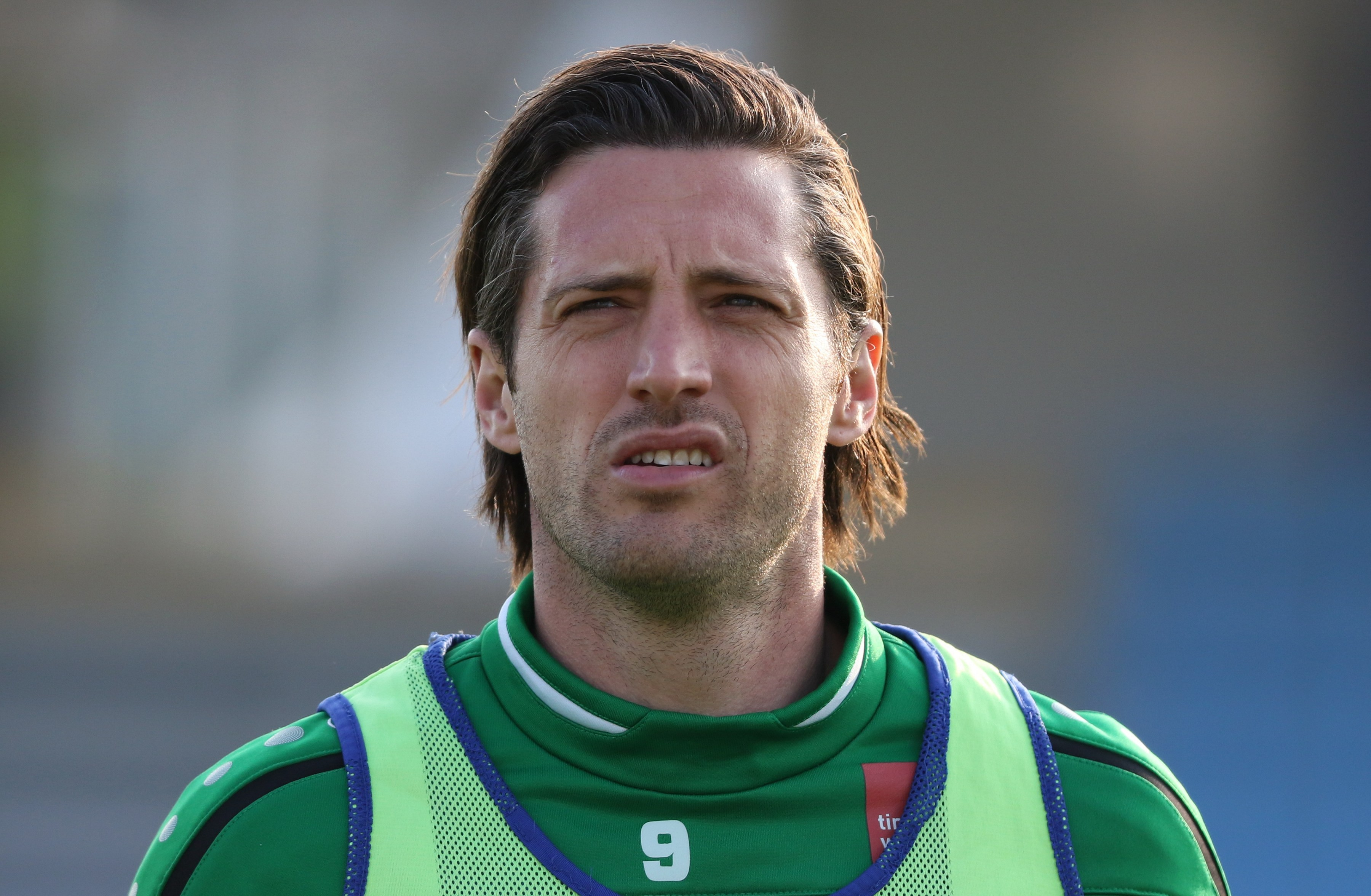 Match of the Erste Liga – SC Wiener Neustadt (blue/white shirts) vs. FC Wacker Innsbruck (green/black shirts) 0–2 (0–1) on 2016-04-11 in the Stadion in Wiener Neustadt – The photo shows Thomas Pichlmann.